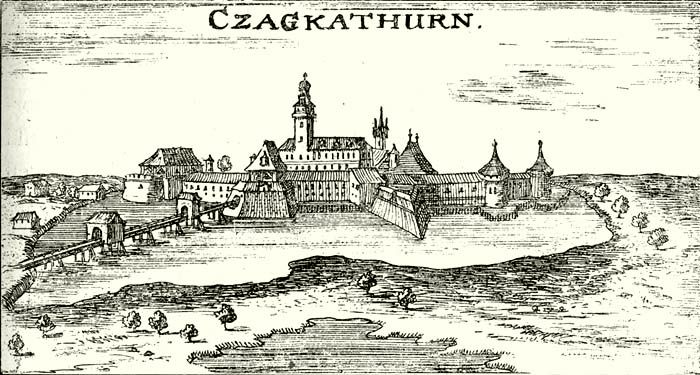 Zrinski Castle in Čakovec (Croatia) in 1640, book illustration by 1896